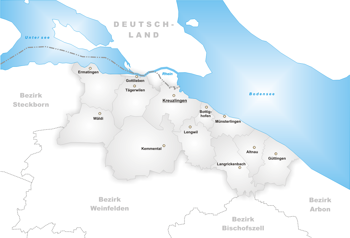 Municipalities of District Kreuzlingen